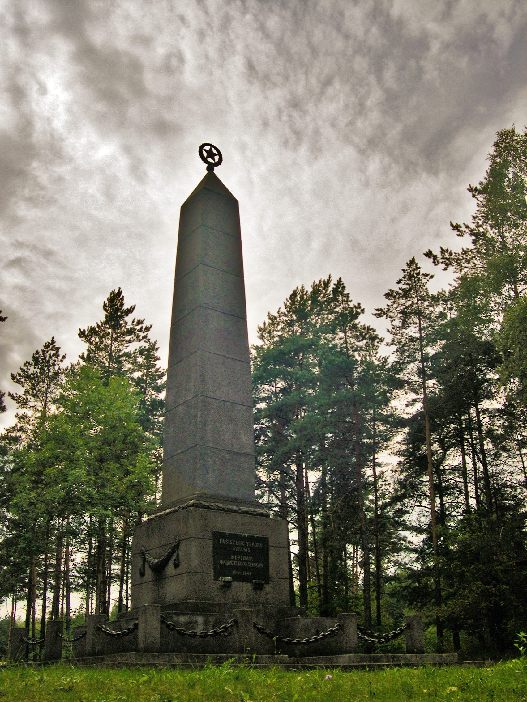 The monuments to the victims of Ponari massacre (called “victims of fascist terror” here, erected when Lithuania was still part of the Soviet Union replacing an earlier monument for the Jewish victims)